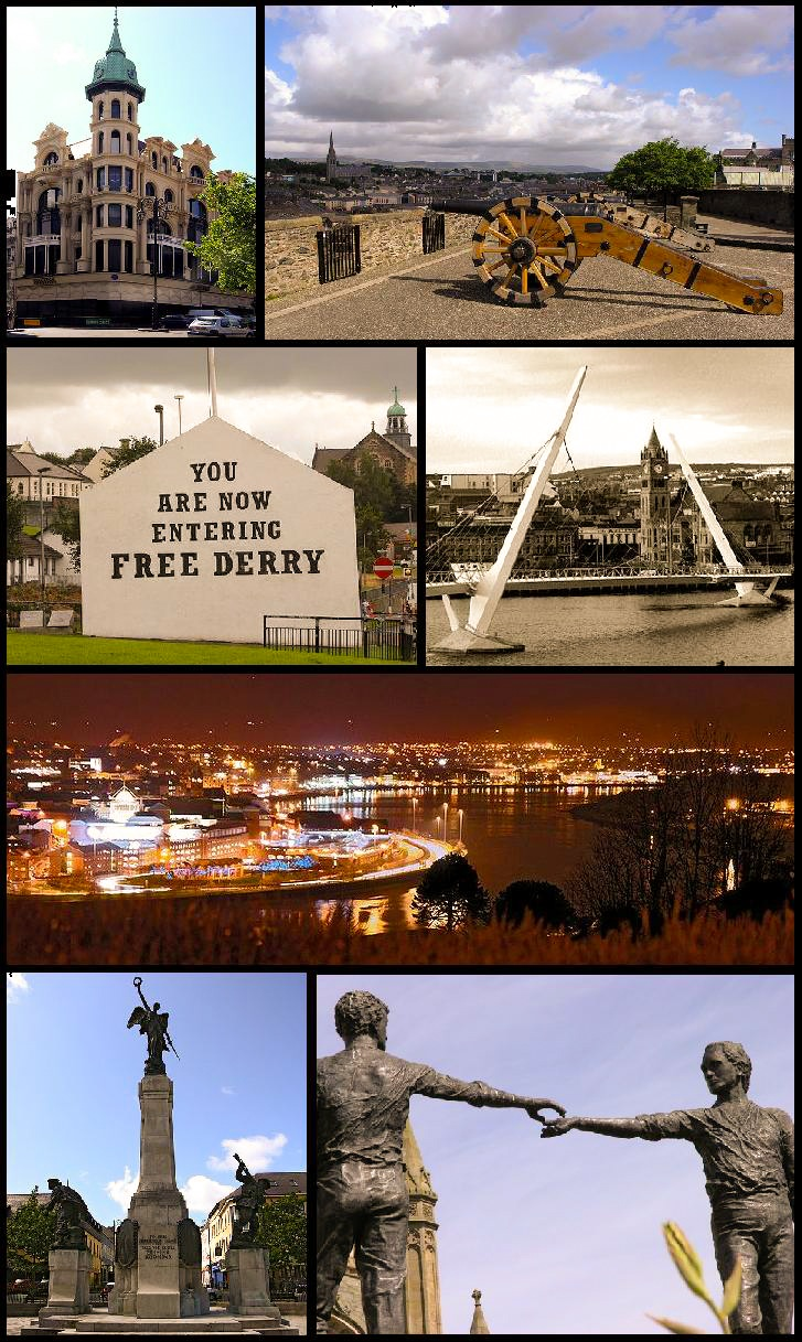 A collage of images of Derry City put together by me using images from Wikimedia Commons